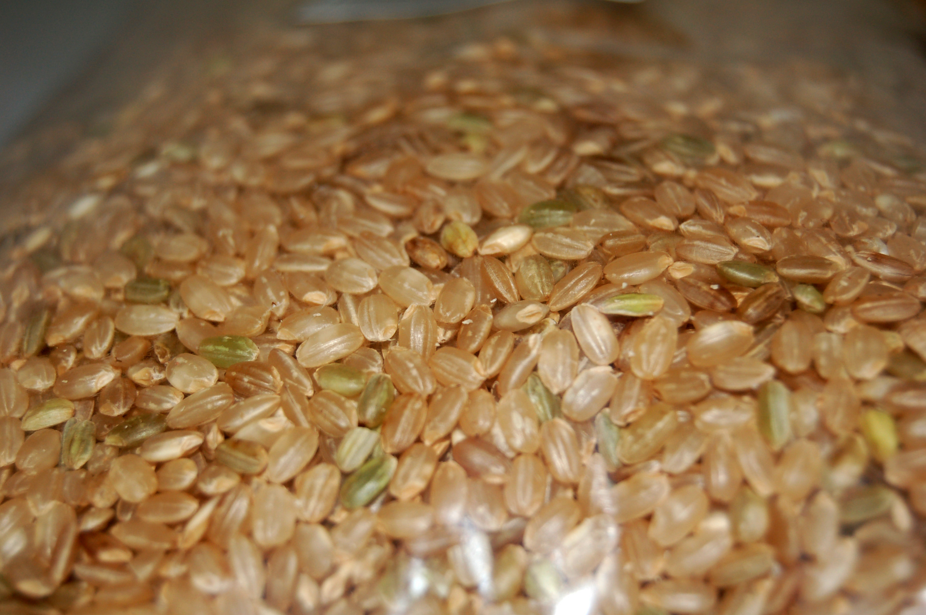 For the February scavenger hunt category "natural".